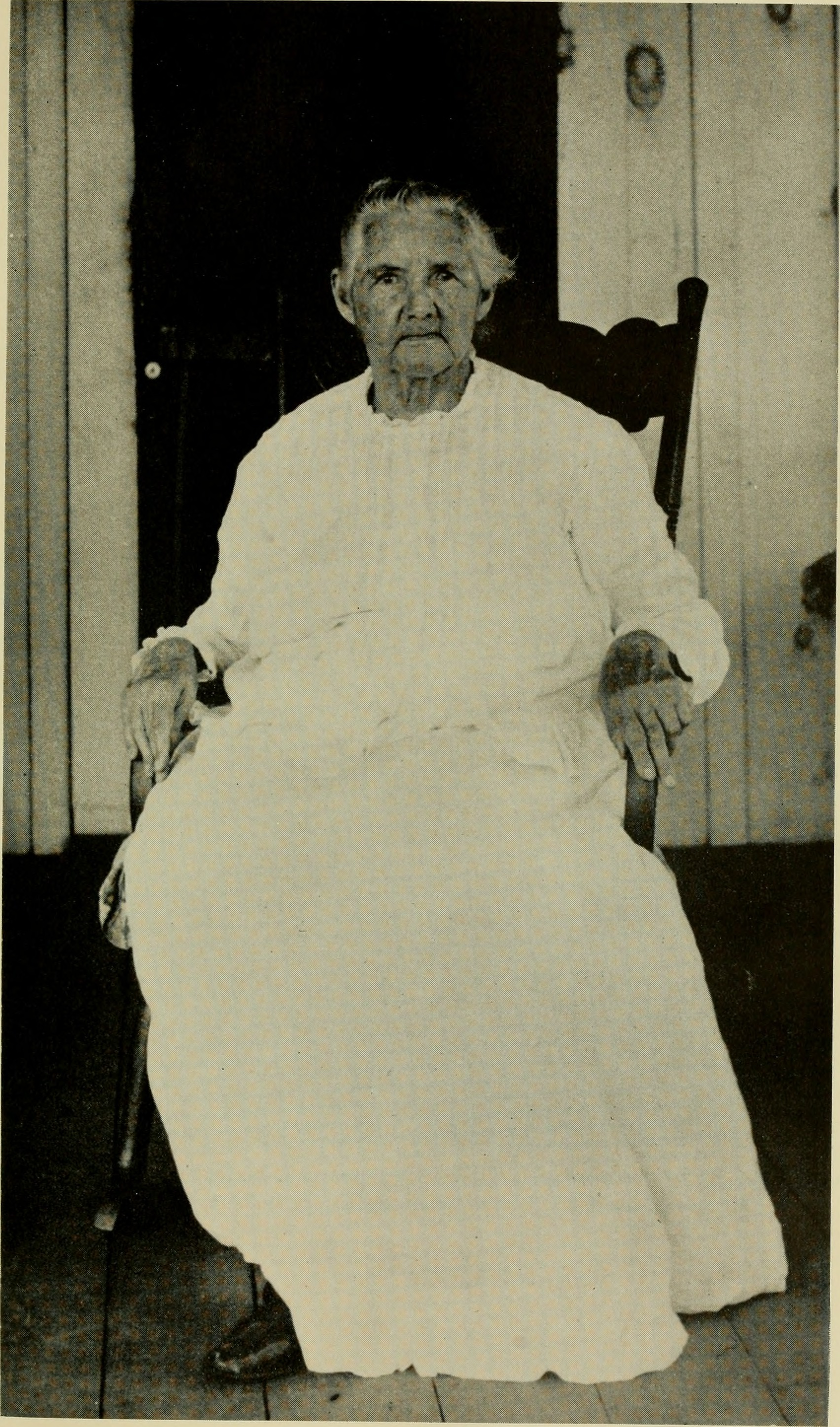 Title: Bulletin Year: 1901 (1900s) Authors: Smithsonian Institution. Bureau of American Ethnology Subjects: Ethnology Publisher: Washington : G. P. O. Text Appearing Before Image: BUREAU OF AMERICAN ETHNOLOGY BULLETIN 196 PLATE 1 Text Appearing After Image: Wahnenauhi (Mrs. Lucy L. Keys). This photograph was taken sometime between 1900 and 1912, according to Clum D. Keys, grandson of Wahnenauhi, who supplied it.